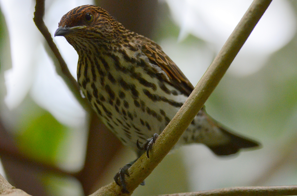 A female Violet-backed Starling in captivity.